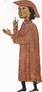 Aimeric de Peguilhan from BnF MS 854, folio 50v.